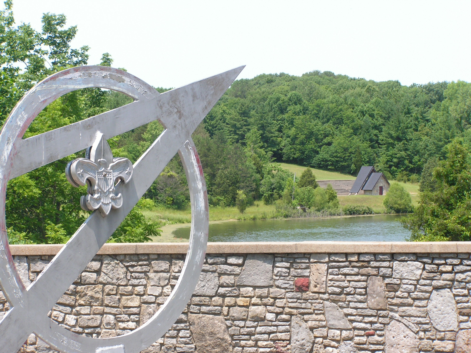 Woodland Trails Scout Reservation sundial at the scenic overlook, viewing Four Eagles Lake and the Woodland Trails chapel